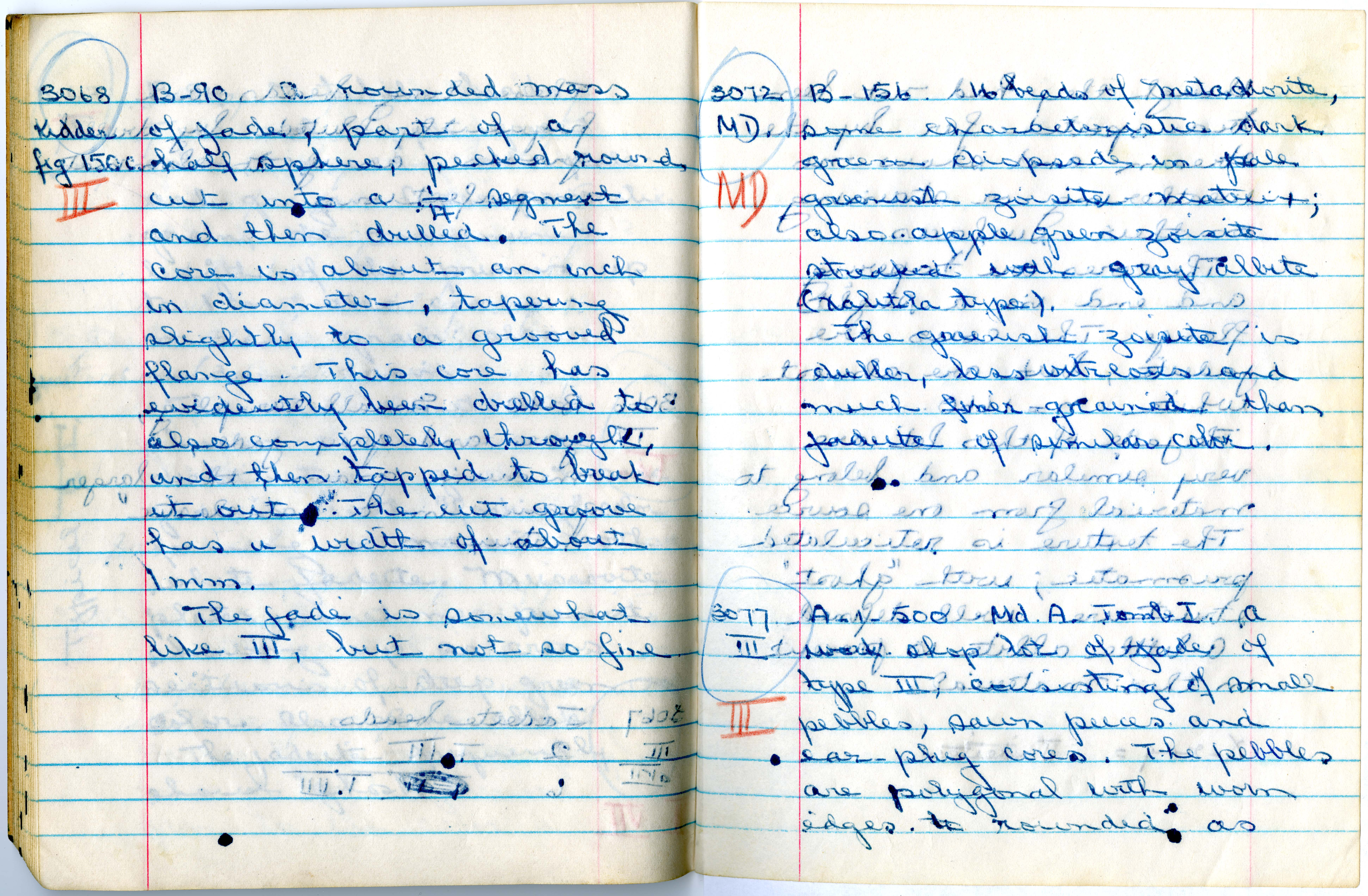 Creator: William F. Foshag Local number: SIA2011-0944 Summary:Acc 91-144, Box 1, Field Notebooks (Re: Jade); Page with description of sample highlighting specimens 3068, 3072, 3077 of Foshag's Kaminaljuyu-Jade. Dates: c. 1935-1949 Repository: Smithsonian Institution Archives Related blog post: Never Jaded: A Look at Field Notes View more collections from the Smithsonian Institution. .